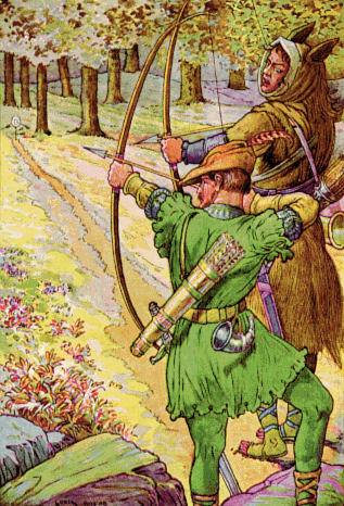 Robin Shoots with Sir Guy